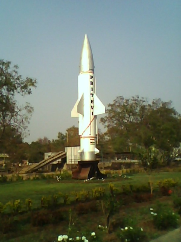 Indian Army Exhibiting the armour of Mother India at DRDO (DEFENCE RESEARCH & DEVELOPMENT ORGANISATION)